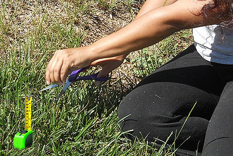 perfectionist measuring and cutting grass